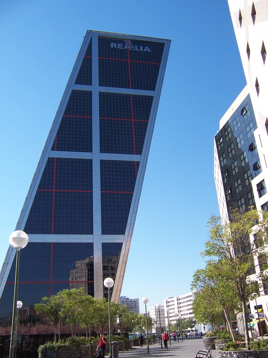 Madrid, Spain. Source: Csörföly D